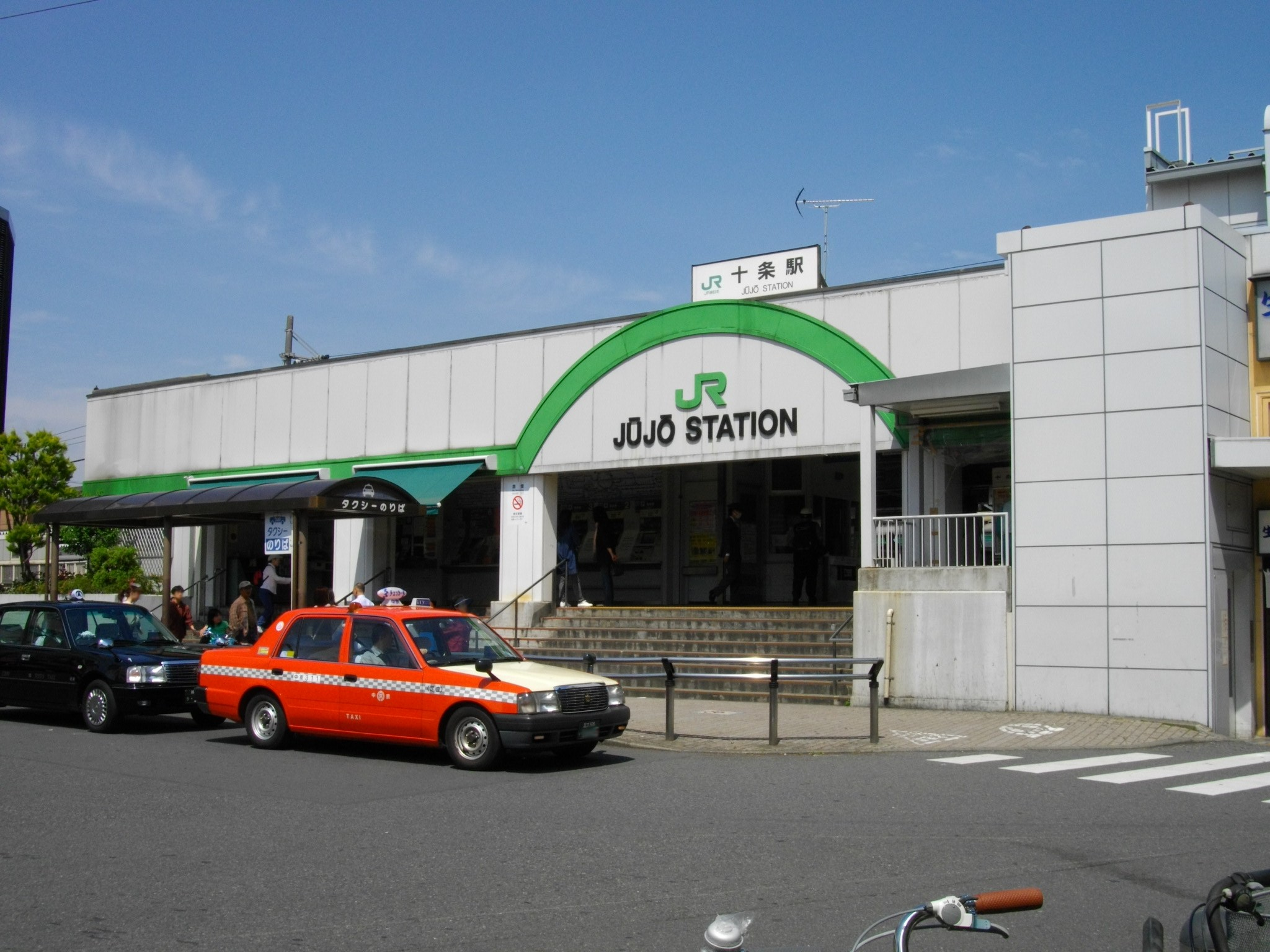 Jūjō Station on the Saikyo Line in Tokyo